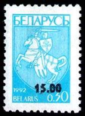 Stamp of Belarus